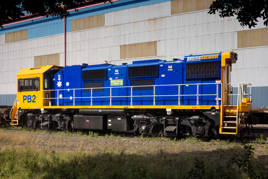 Pacific National PB Class at Lysaghts